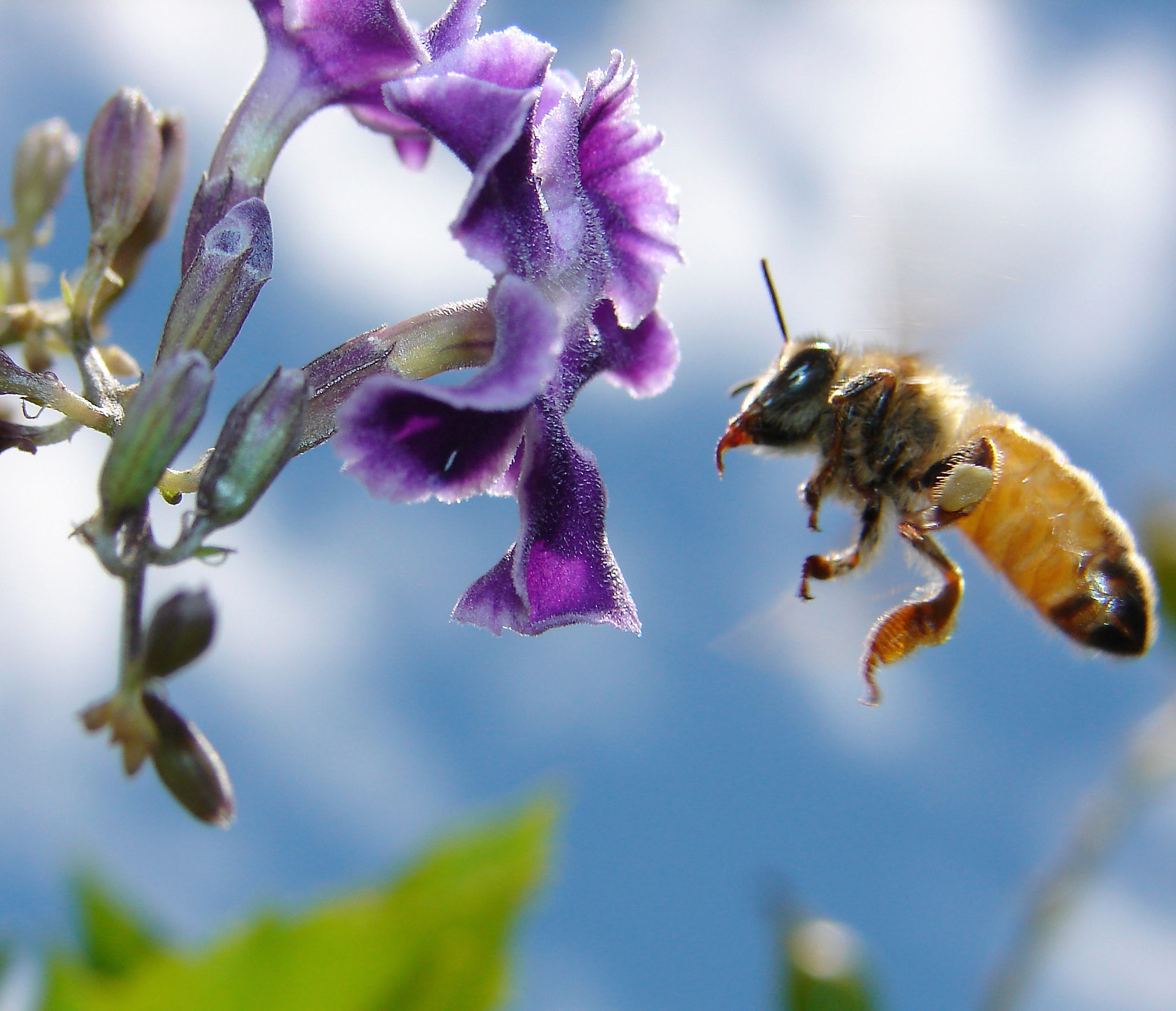 The weather started to fine up today, so I was out in the garden which meant more photo opportunities 'Lift Off- Best Viewed Large' On Black